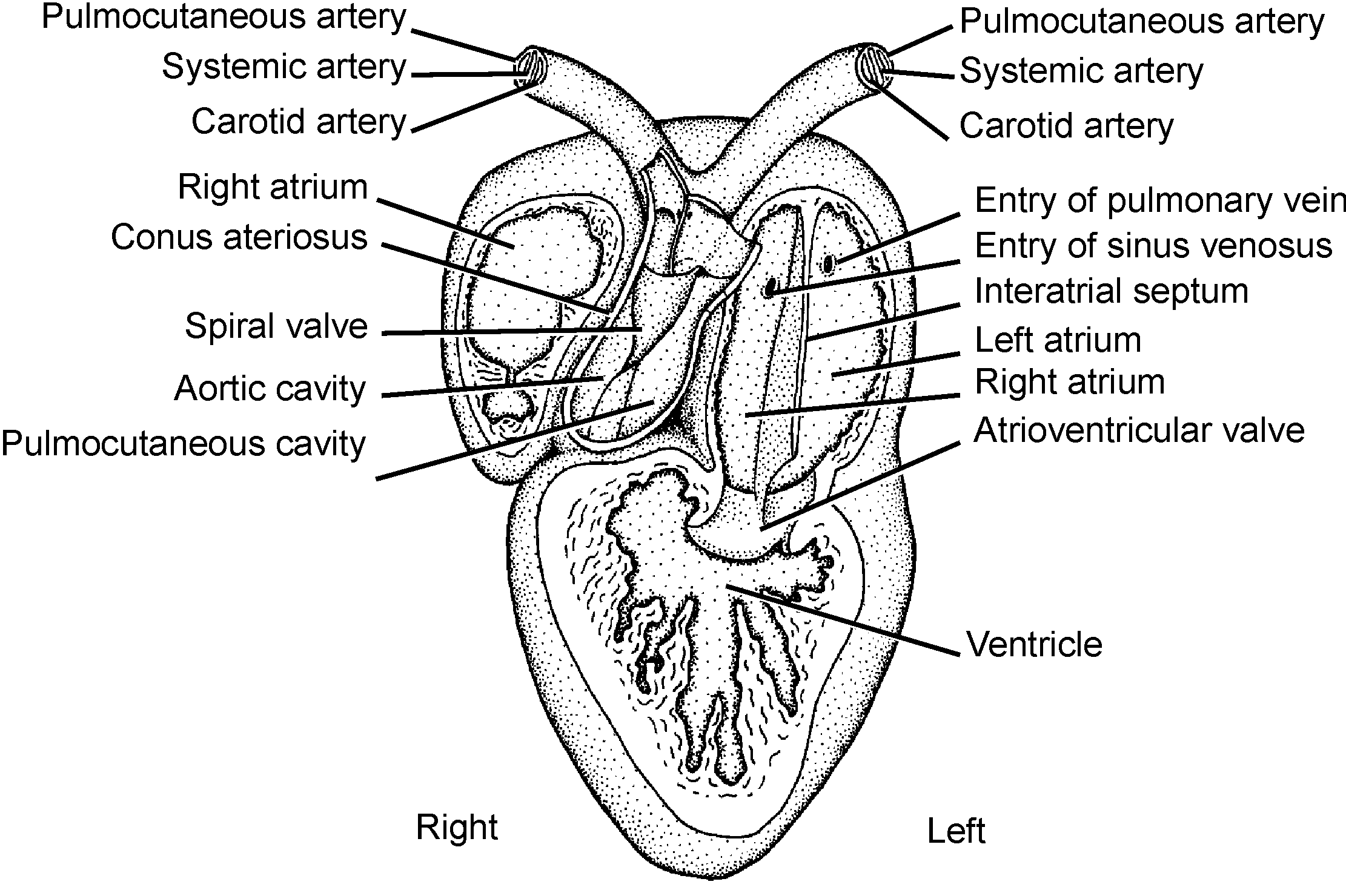 Anatomy of the amphibian heart.